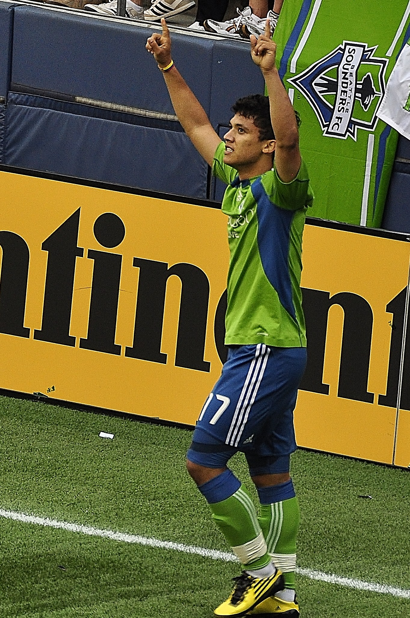 Montero of Sounders FC v. FC Dallas on July 11, 2010